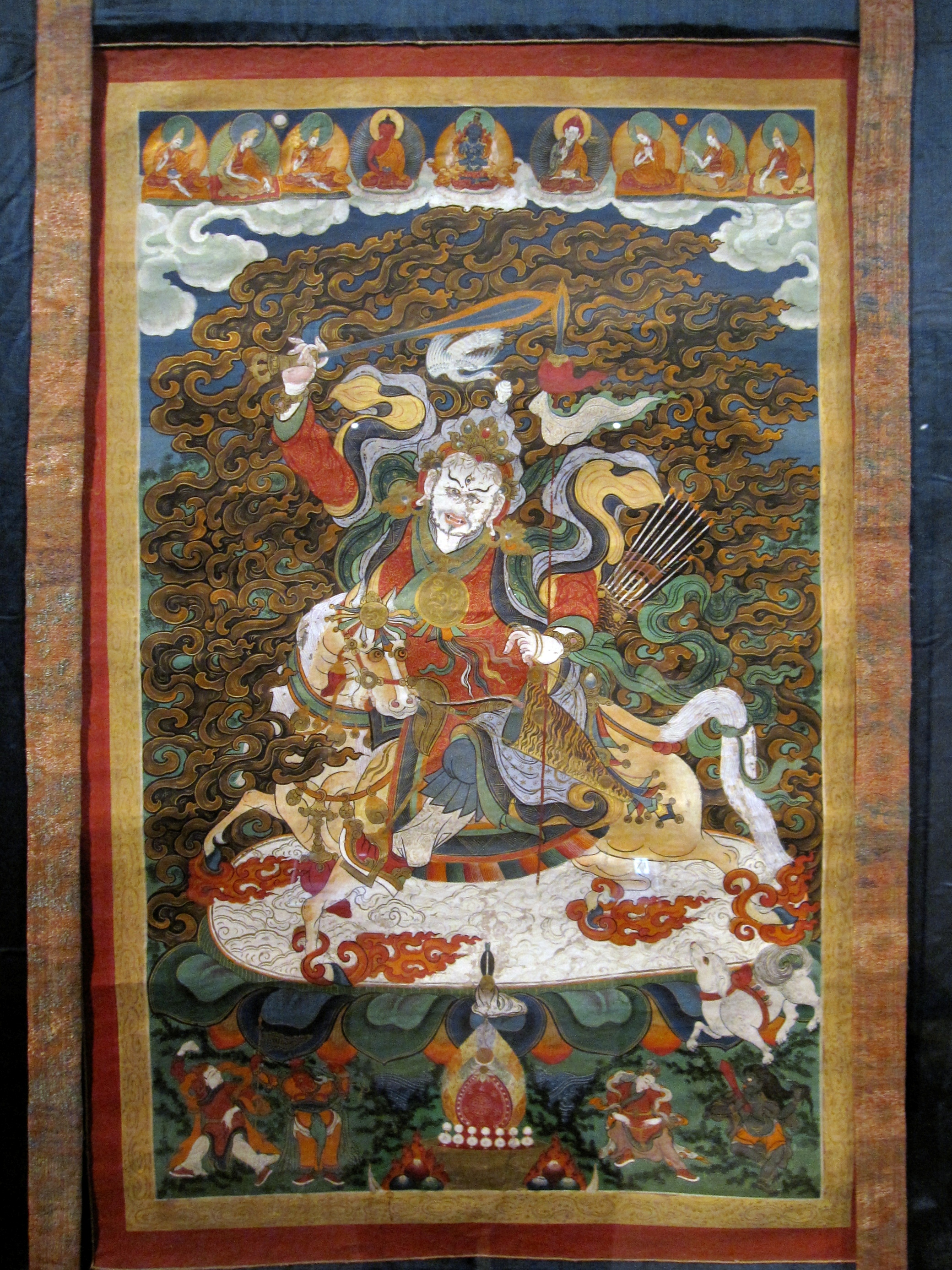 Tanka of a mountain deity. Mongolia, 19th century CE.